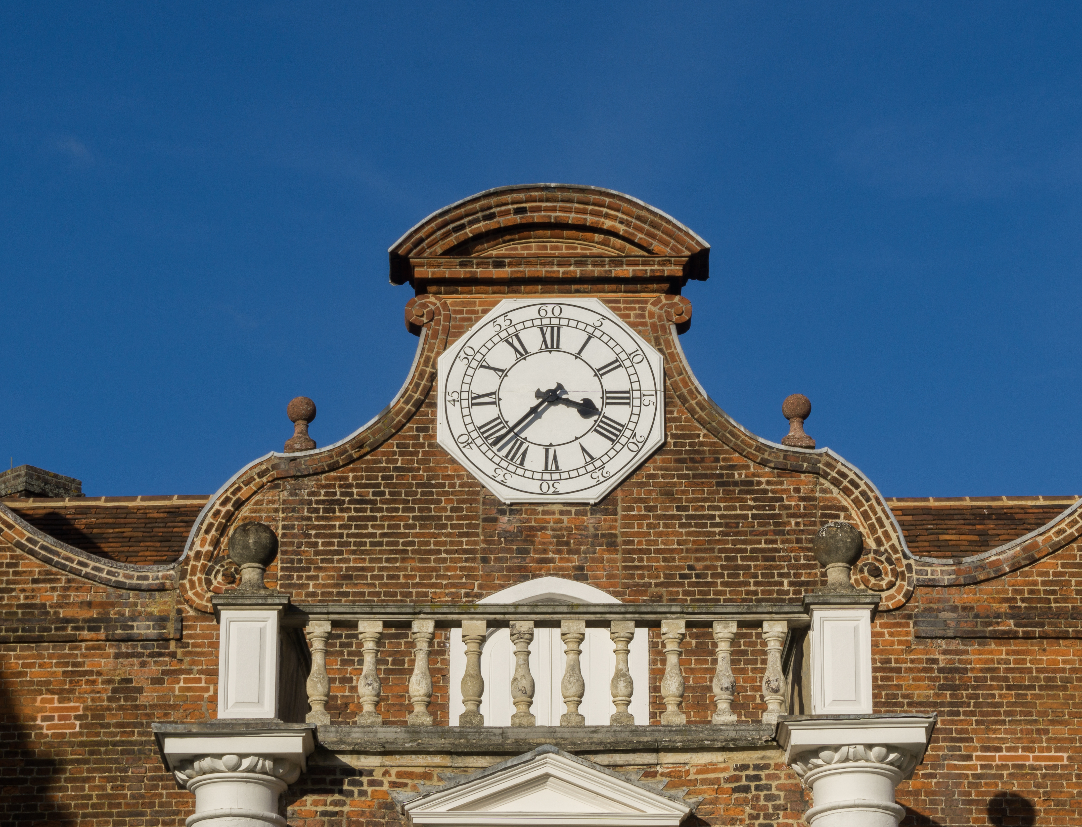 The clock over the main gate of Christchurch Mansion, Ipswich, Suffolk, UK. It is a Tudor mansion which now is a museum.